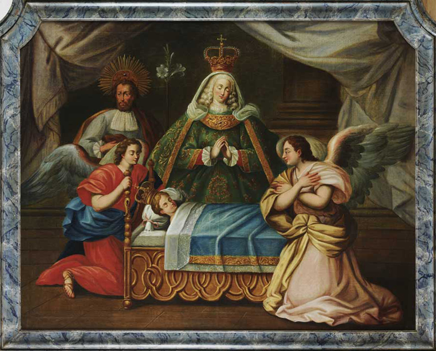 Depicted in the painting are the likenesses of Mother Paula of Odivelas (as the Virgin Mary), King John V of Portugal (as Saint Joseph), and Infante Joseph of Portugal (as the Baby Jesus).